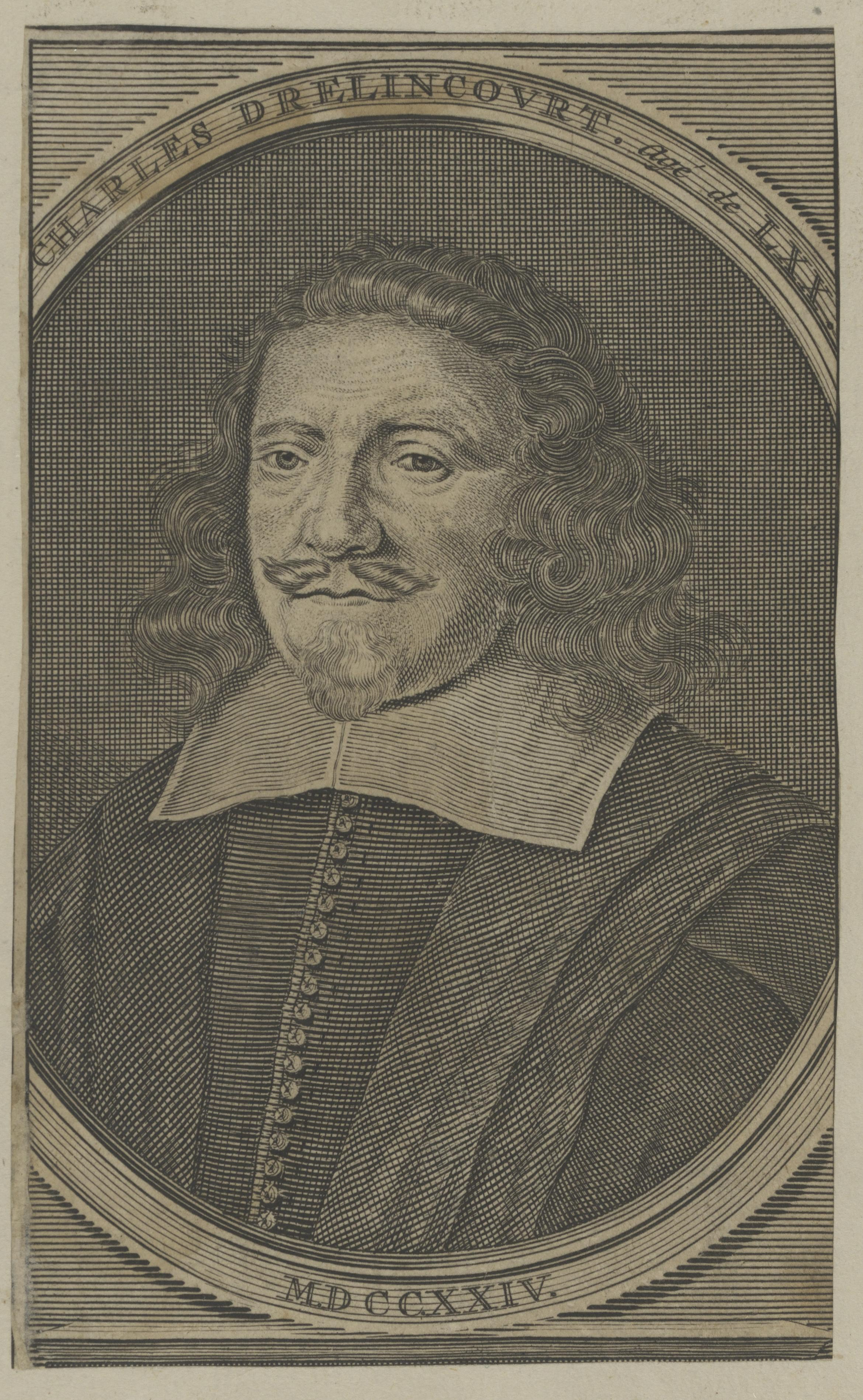 Portrait of Charles Drelincourt